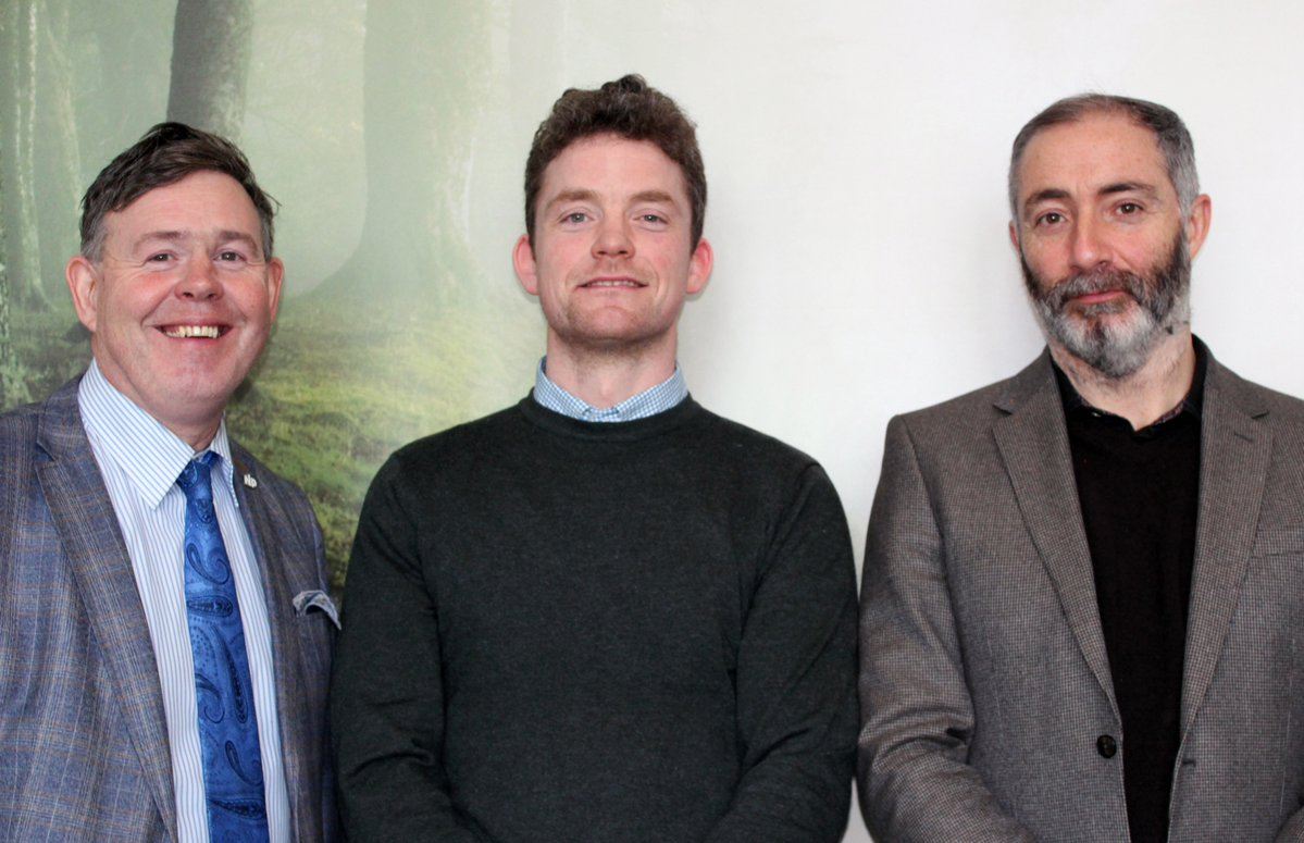 James Reynolds, Paul McWeeney and Paul Hanley